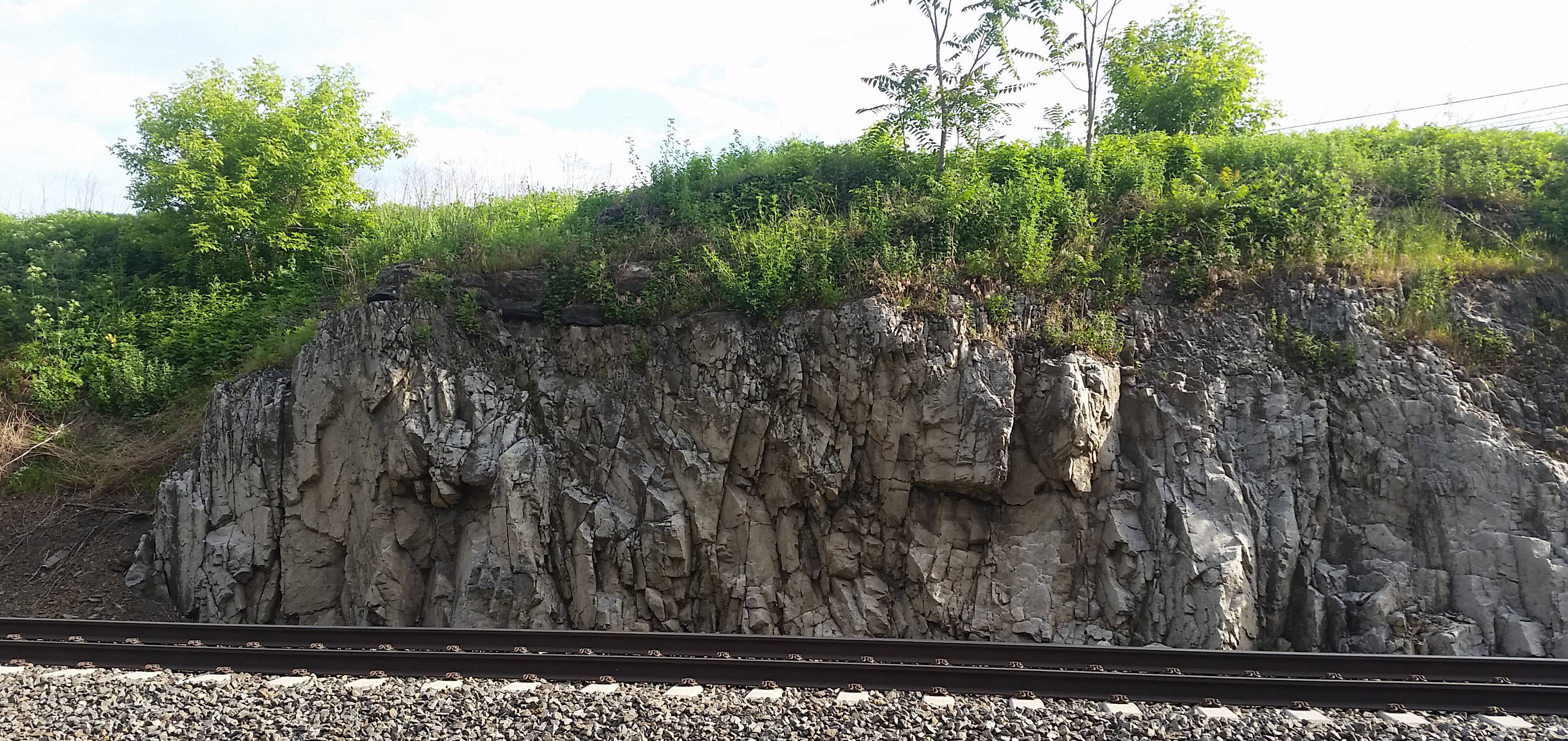 Type-section outcrop of the Vintage Dolomite overlain by Kinzers Formation along railroad tracks in Vintage, Lancaster County, Pennsylvania. Facing north.